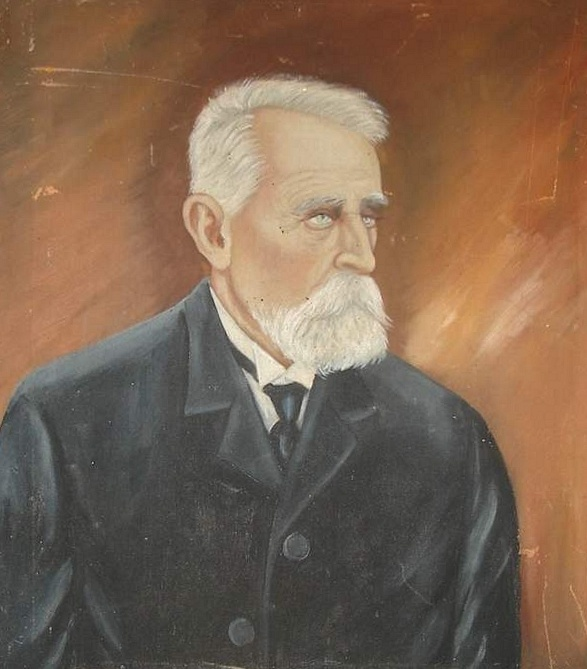 Cristiano Lauritzen (1847 — 1923), mayor of Campina Grande (1904-1923)